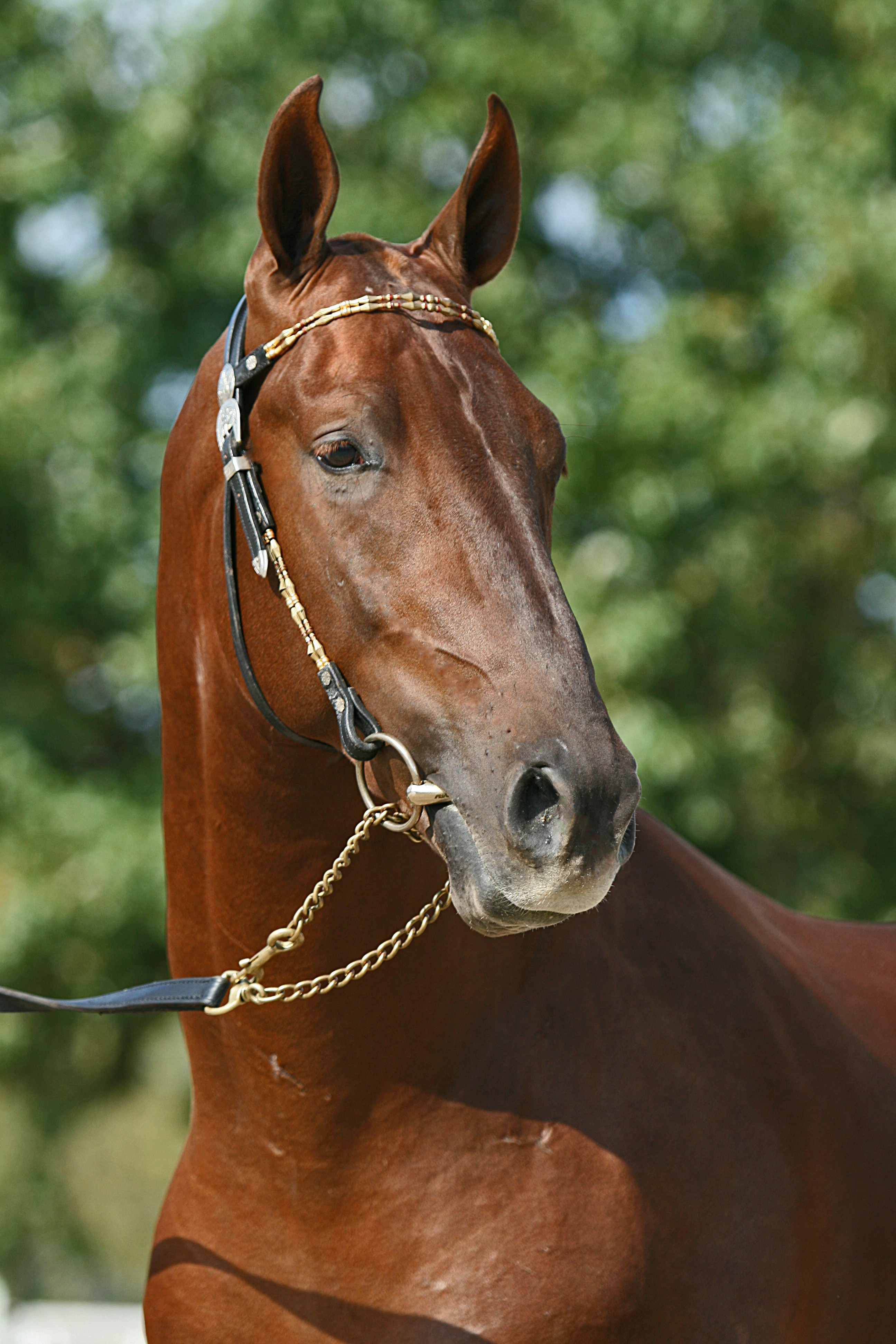 I wish I had caught his name. I'll have to ask around to find it. Photo by Heather Abounader